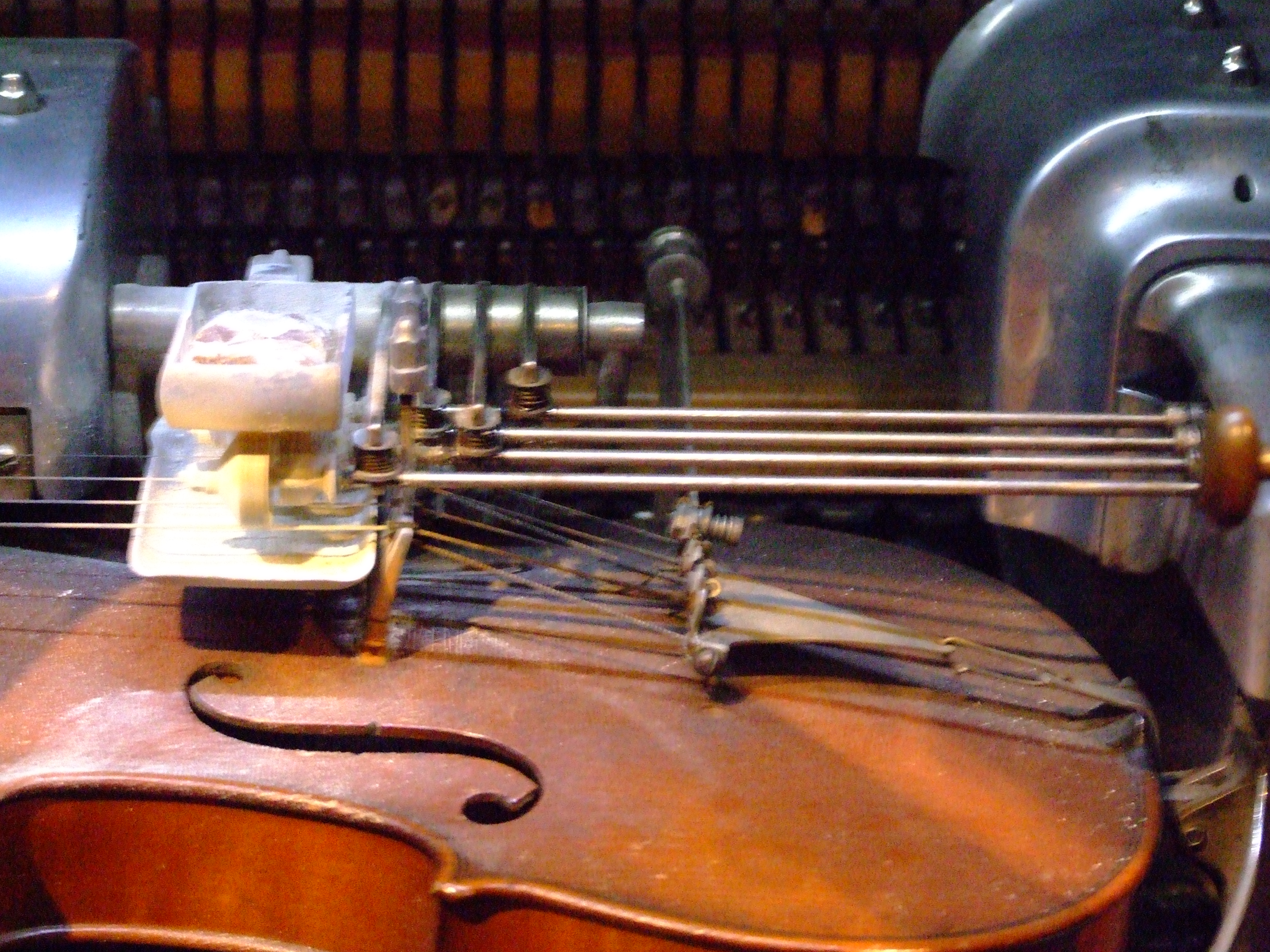 Mills Novelty Company Violano Virtuoso Or bows to be more precise. Four polished bakelite wheels are spun by a 110 volt motor while a series of electromagnets "finger" the notes as a 44 note piano plays accompanent. Even the violin strings were tuned automatically.